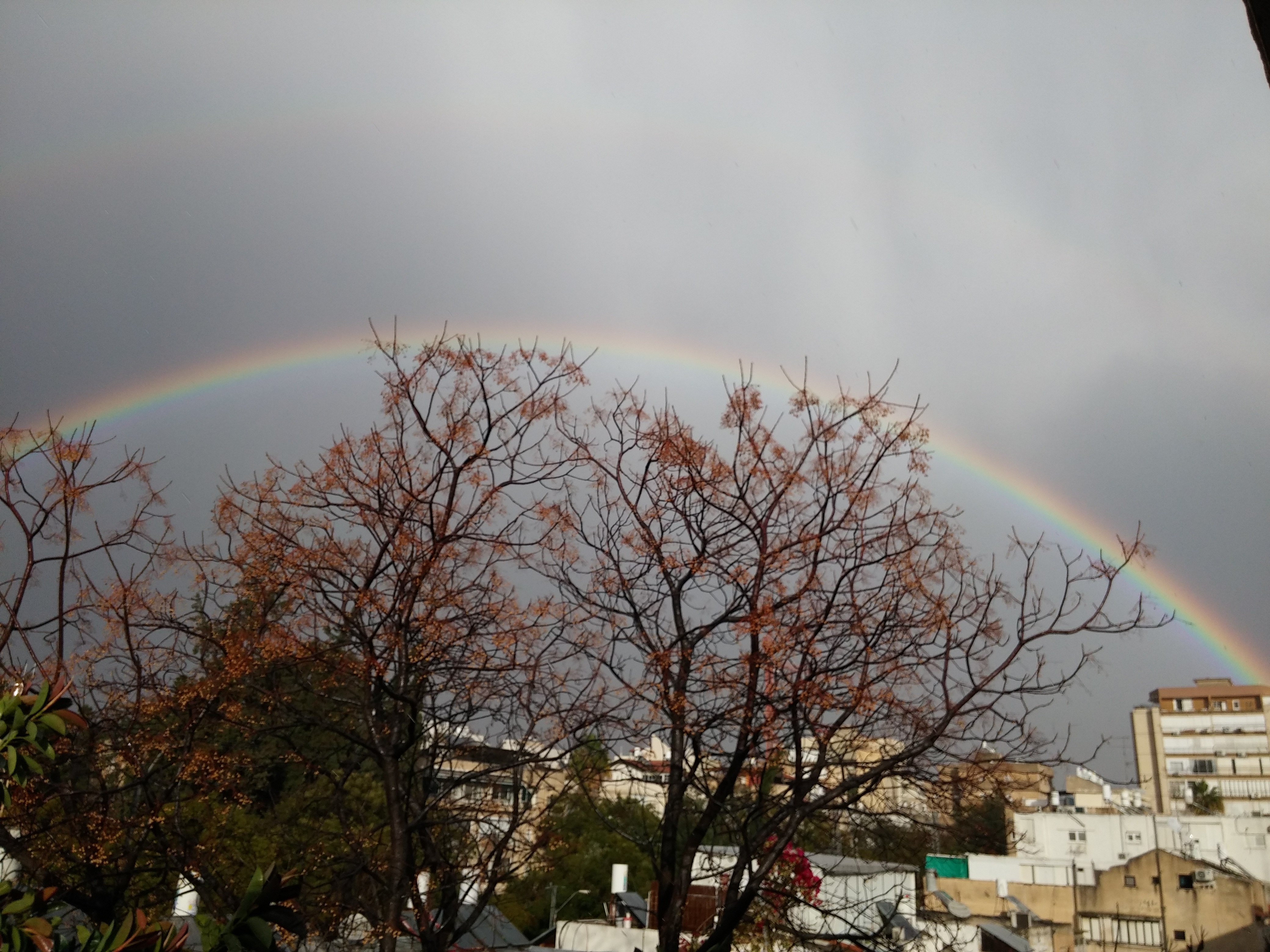 A double rainbow in Ramat Gan